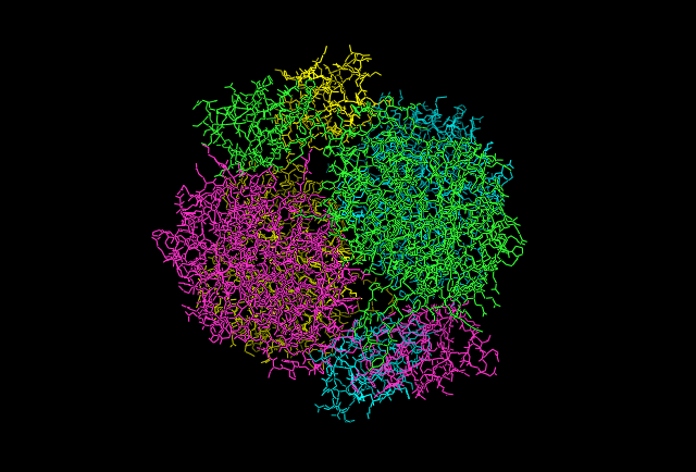 This image shows the quaternary structure of DAHP synthase. It was created using Pymol.